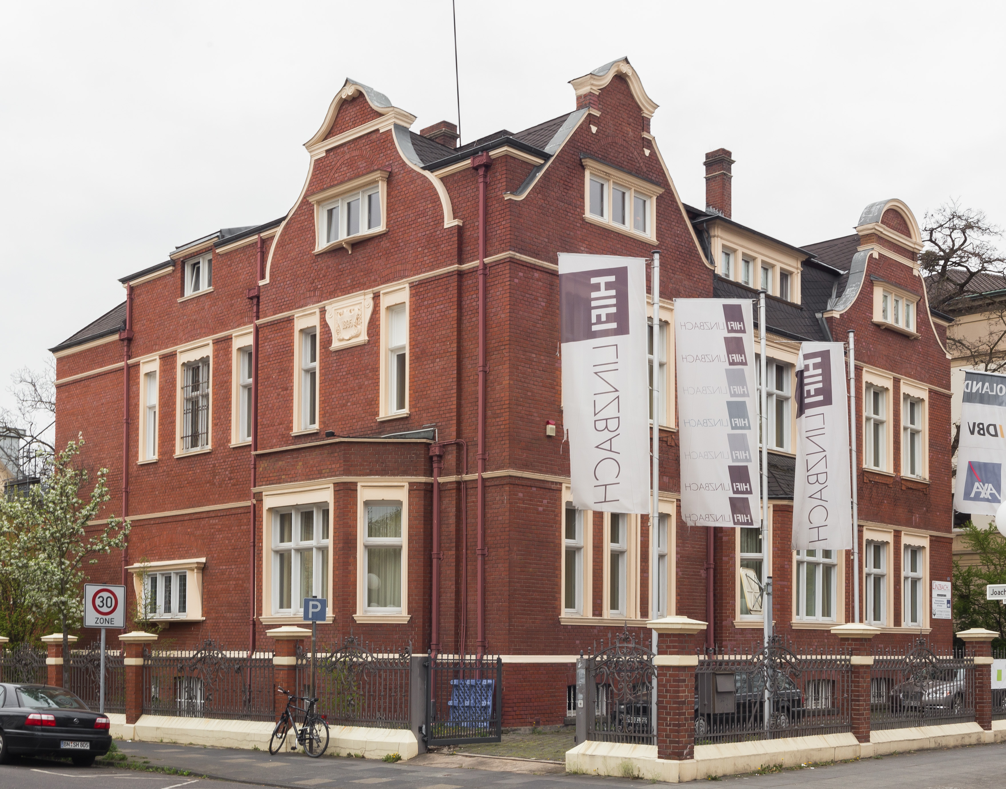 Villa Adenauerallee 124, Bonn: view from east